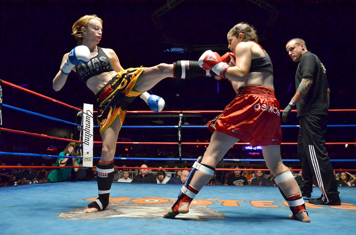 Of all the Mixed Martial Arts, I prefer to shoot Muay Thai the most. When executing proper form, it becomes a dance and it is really a beautiful thing to see. These two amateur fighters are known locally to be skilled kick boxers, and they certainly didn't disappoint the crowd this night. Once again the females end up delivering one of the most memorable fights of the night.